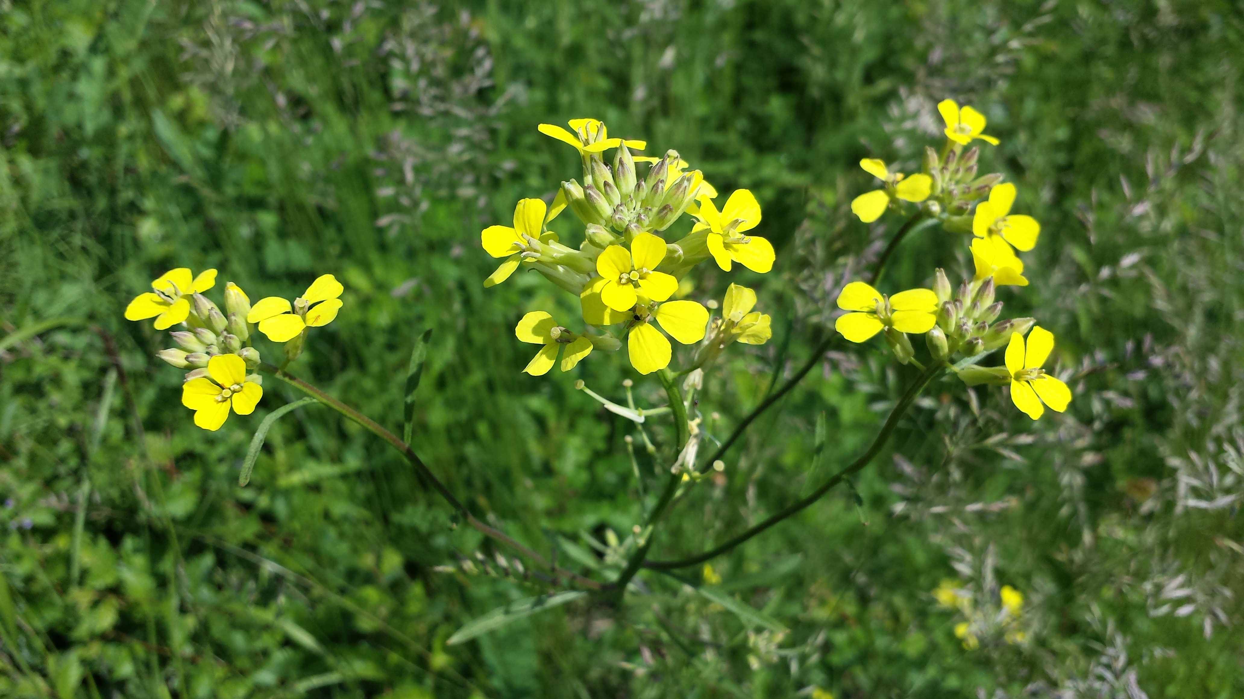 Florescence Taxon: Erysimum diffusum agg. (sensu Fischer et al. EfÖLS 2008, det. W. Adler 2013-05-25) Location: natural monument Zeiserlberg, Ottenthal, district Mistelbach, Lower Austria - ca. 220 m a.s.l. Habitat: dry grassland